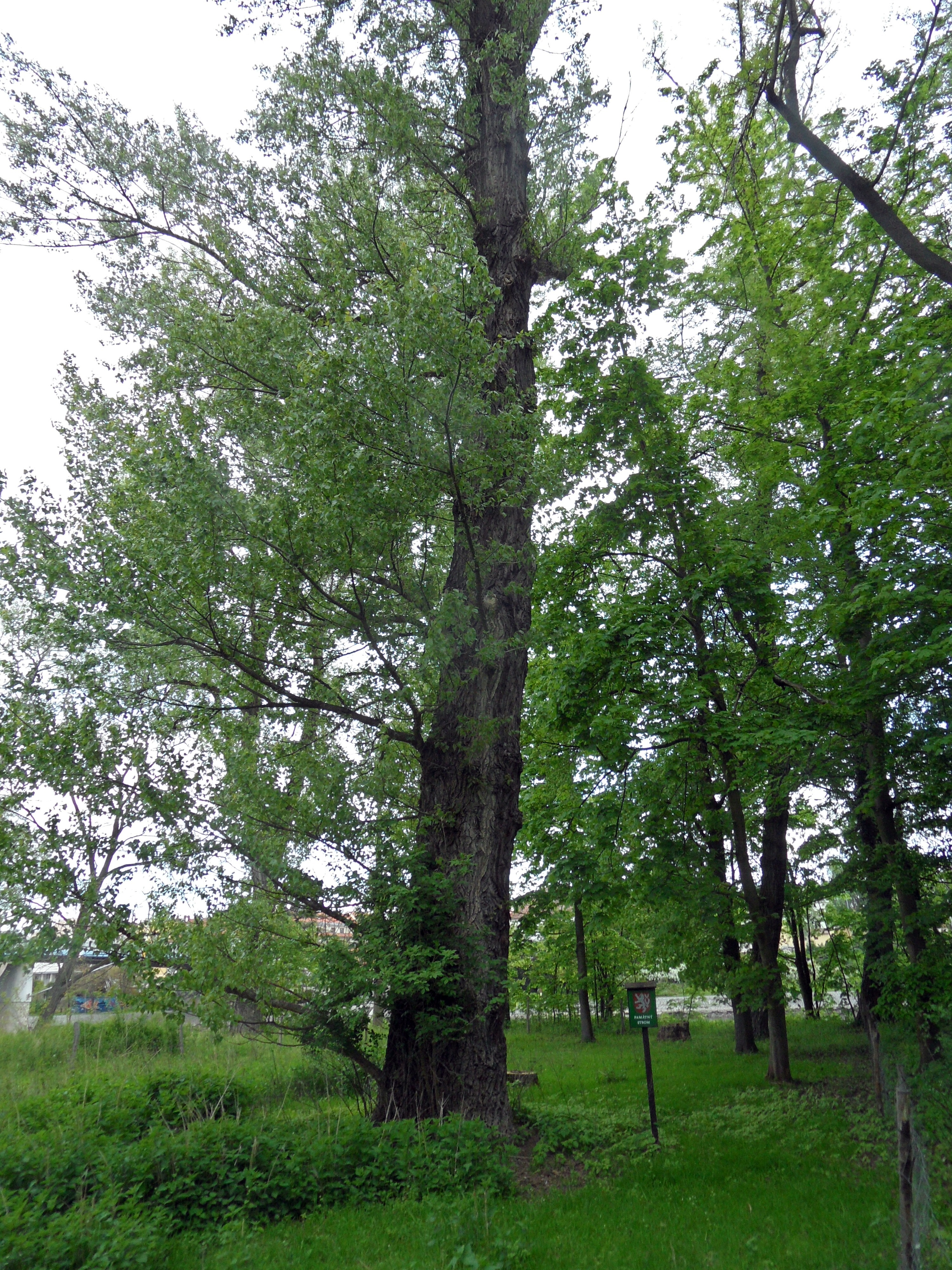 Poděbrady, Famous tree Populus nigra, near Labe. Semi-detail. Nymburk District, the Czech Republic.